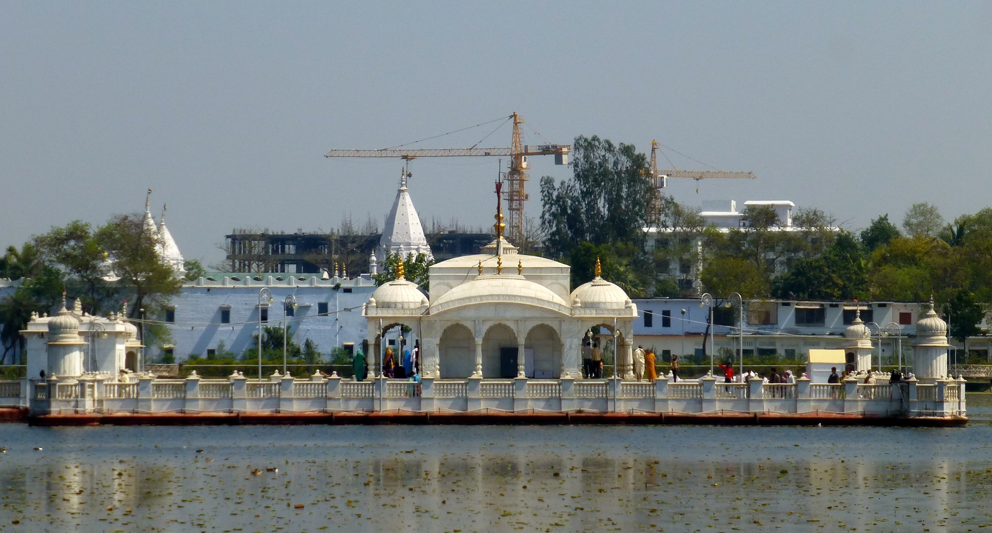 Temple marking Mahavira's Passing at Pawapuri. Photograph from Pawapuri in Bihar taken by Anandajoti.